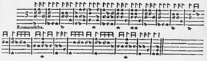 One of the earliest examples of Romanesca (genre of Renaissance music), 1546